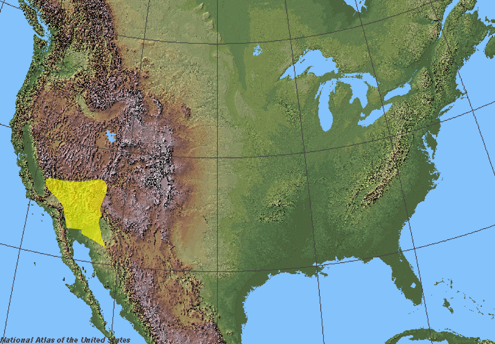 Distribution of Loxosceles deserta within the United States. Mexican distribution data is deficient. Based on